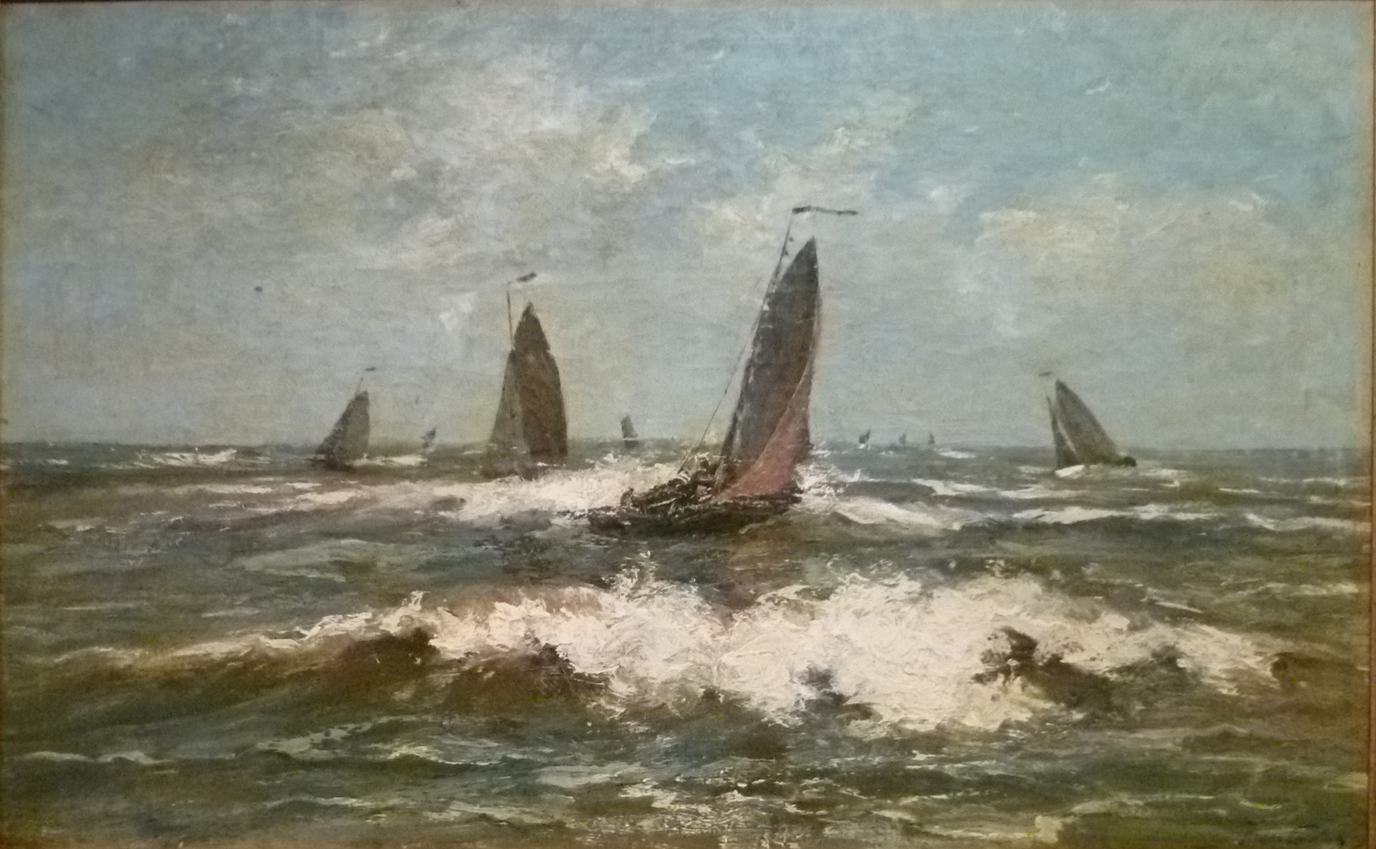 "The wave", oil on canvas (50 x 85 cm) by the Belgian painter Franz Courtens; in private collection